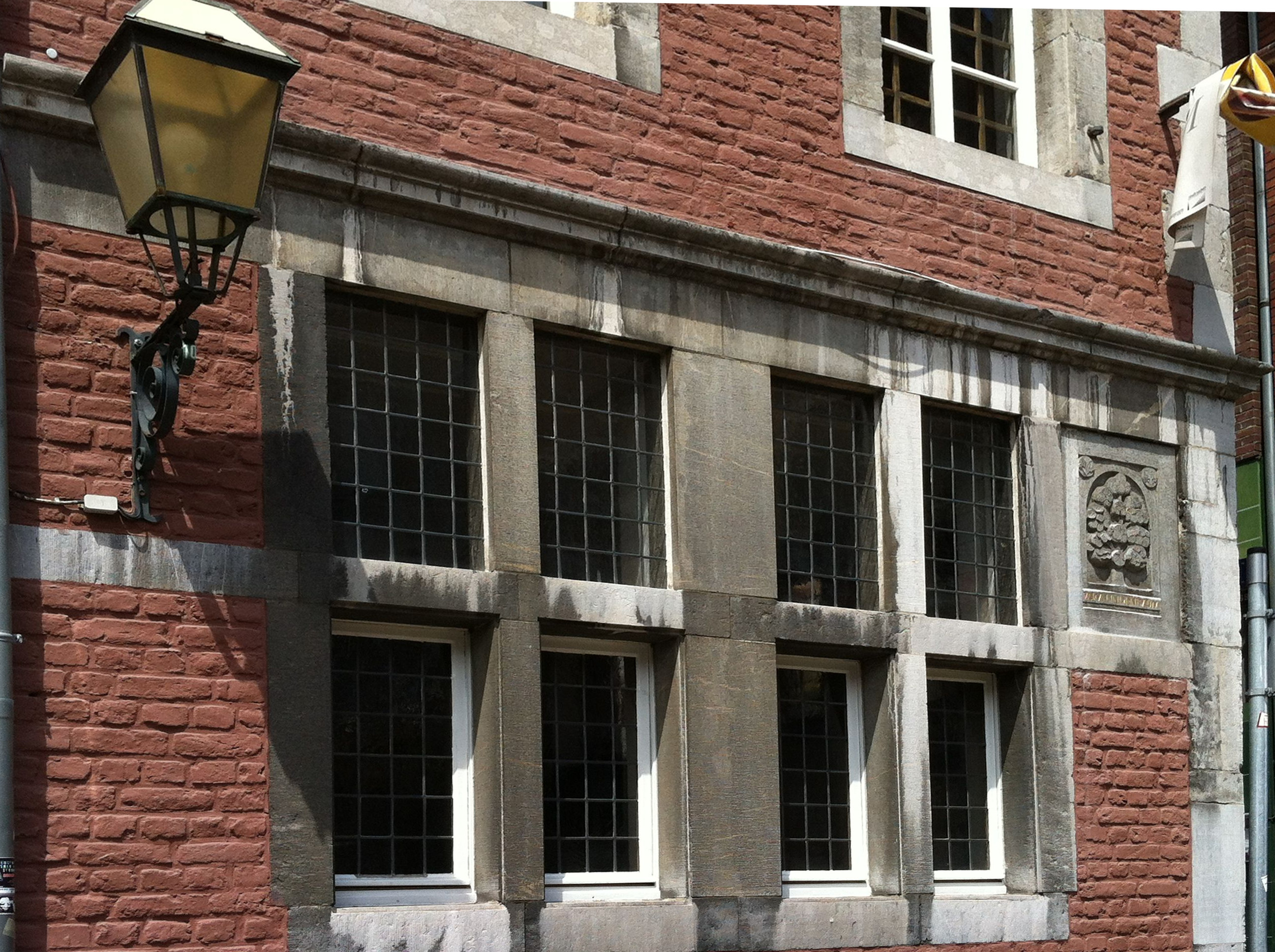 Haus Lindenbaum in Aachen, Ansicht des Erdgeschosses von der Hof-Seite aus. Steinerne Kreuzstockfenster mit Hauszeichen (rechts)